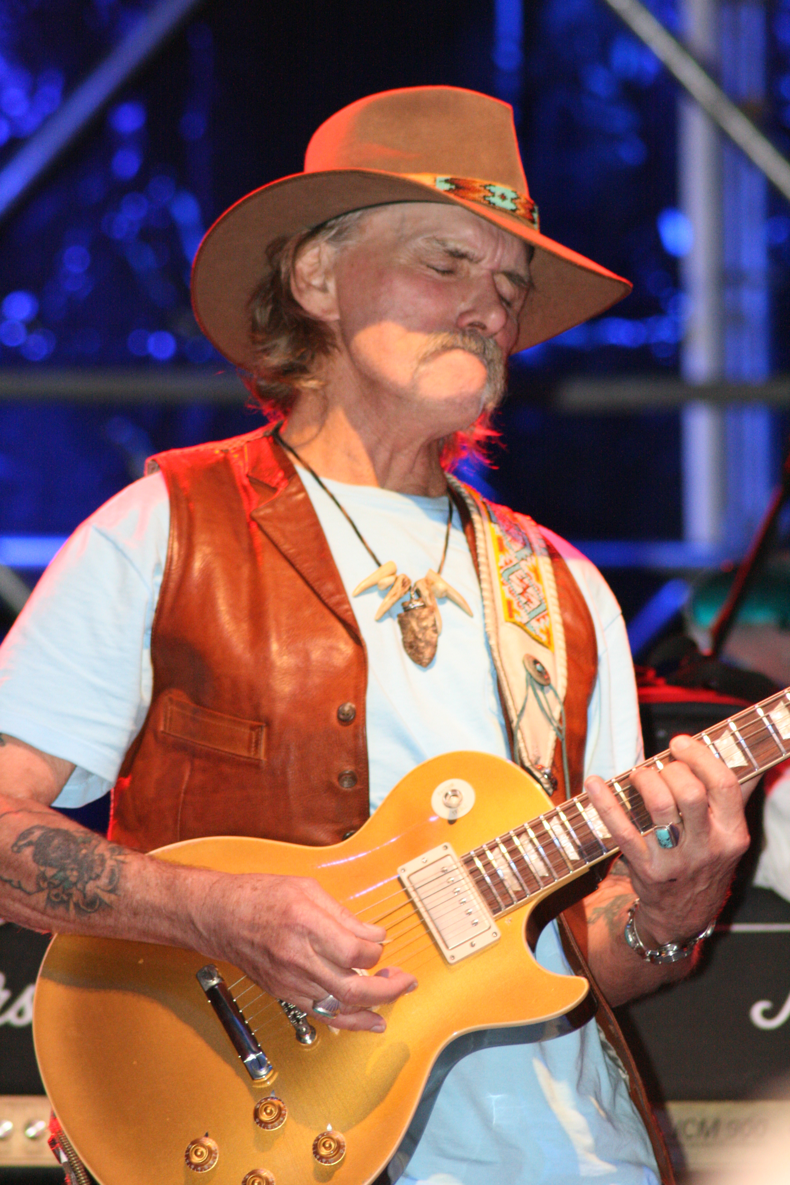 Dickey betts at the Pistoia Blues Festival, Italy July 2008.